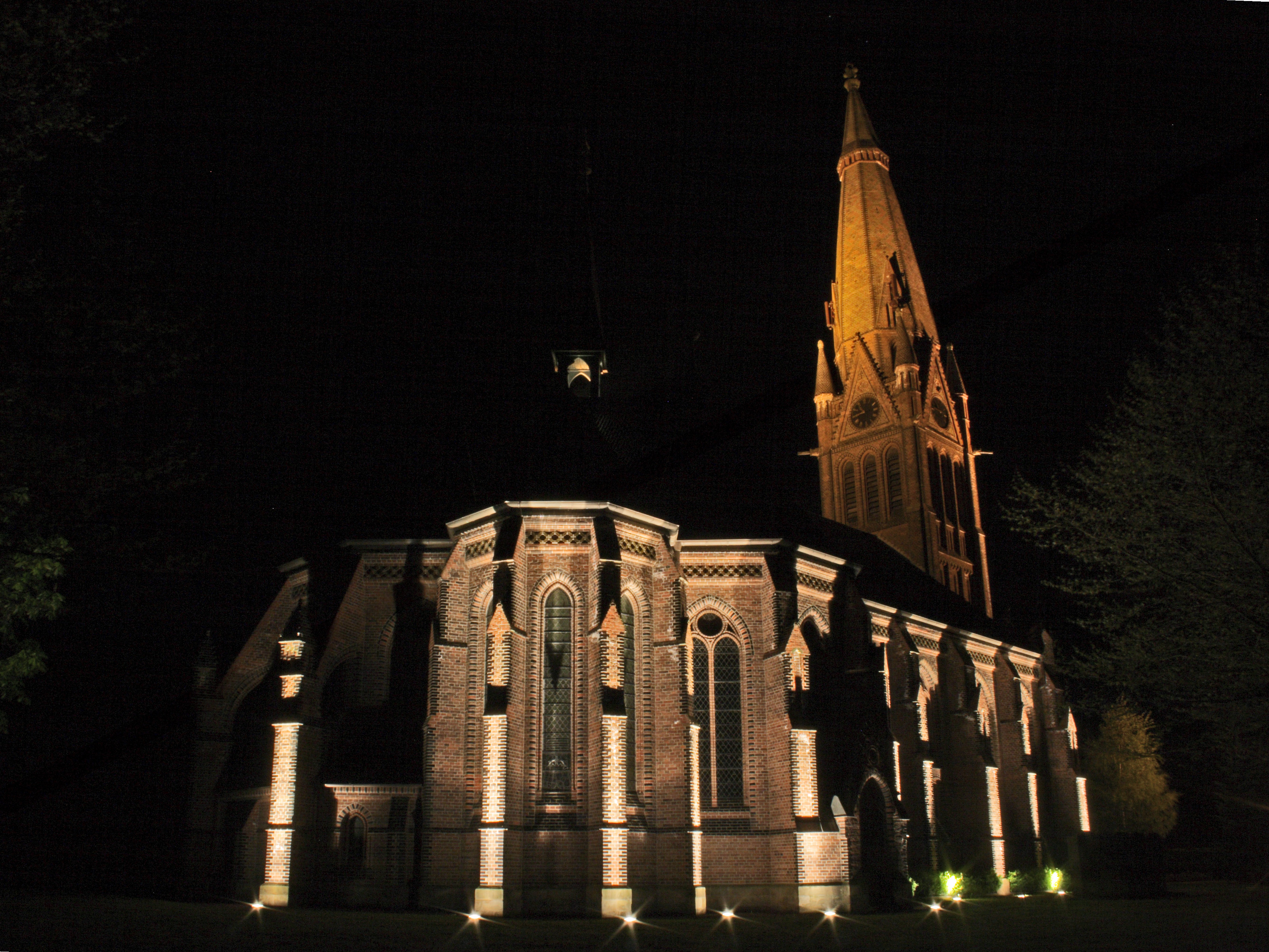 St. Nicolai-Kirche, church in Hagenburg, Germany at night. Taken May 5th 2008